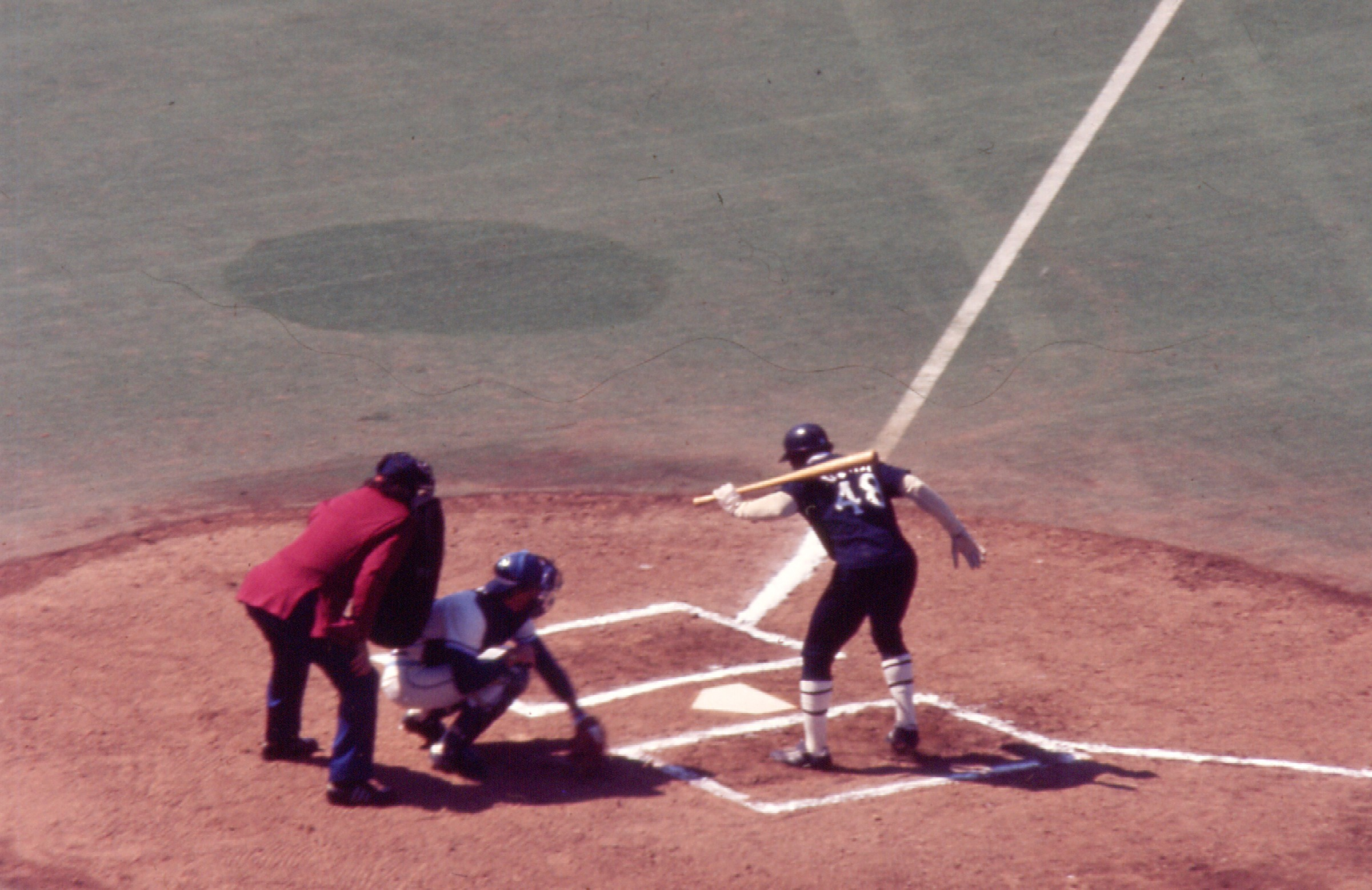 April 7, 1977 was the 1st regular season game in Toronto Blue Jays history. Pictured are Chicago White Sox Ralph Garr (LF) and Toronto Blue Jay Rick Cerone (C). Garr batted lead-off and walked in the first ever at-bat at Exhibition Stadium. The umpire is Nestor Chylak.